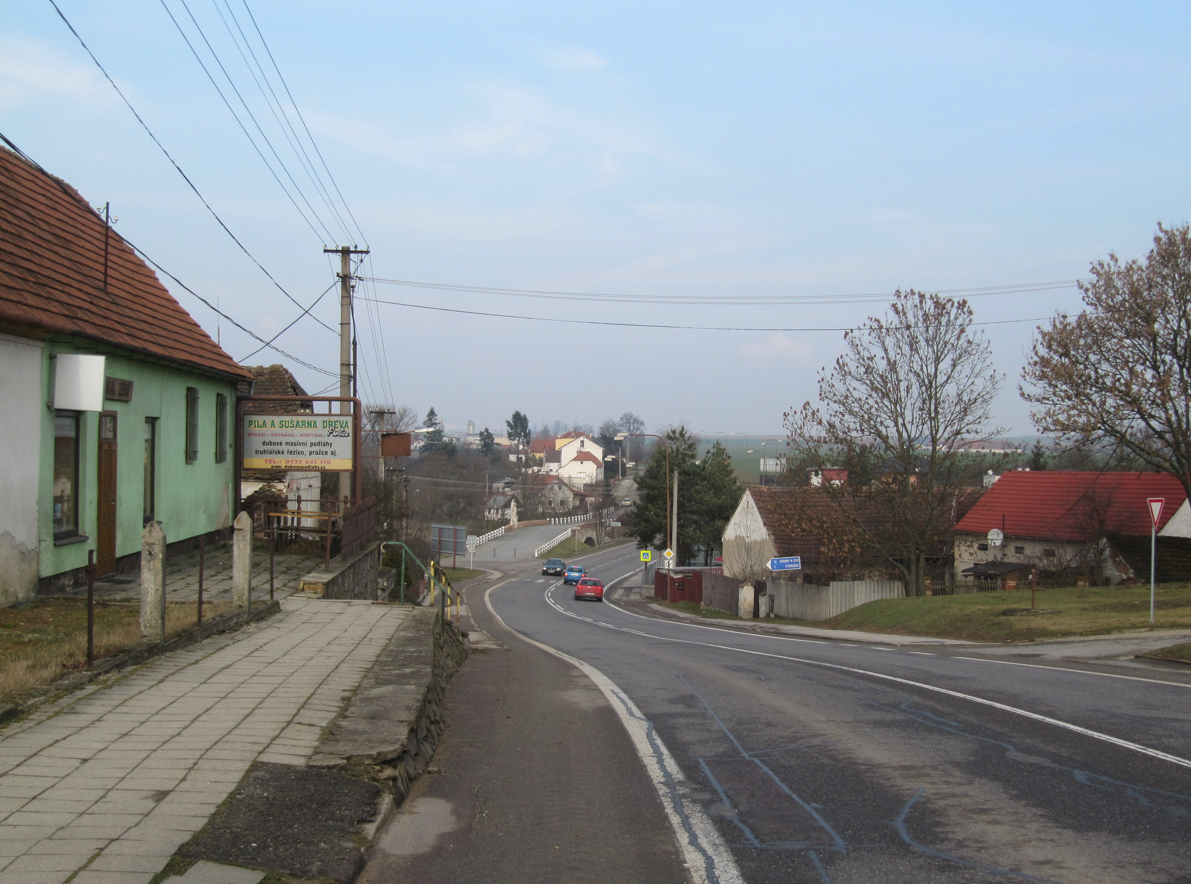 Grešlové Mýto, Znojmo District, Czech Republic. Baroque road bridge with a statue of St. Nicholas from 1764.